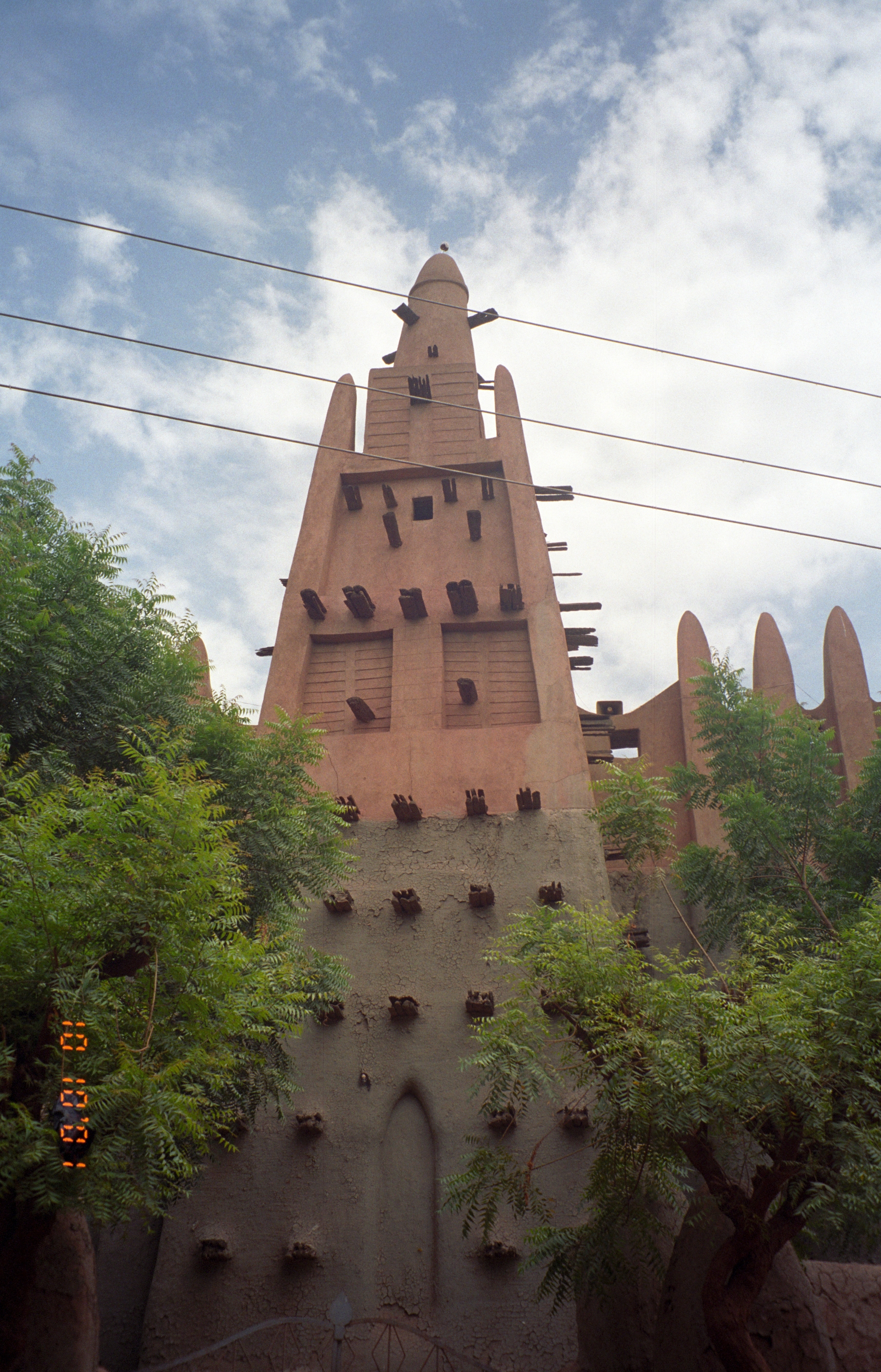 i'm not sure if i should call it a "minaret." no one really called it that in mali and it just looked different from any minaret i have ever seen.